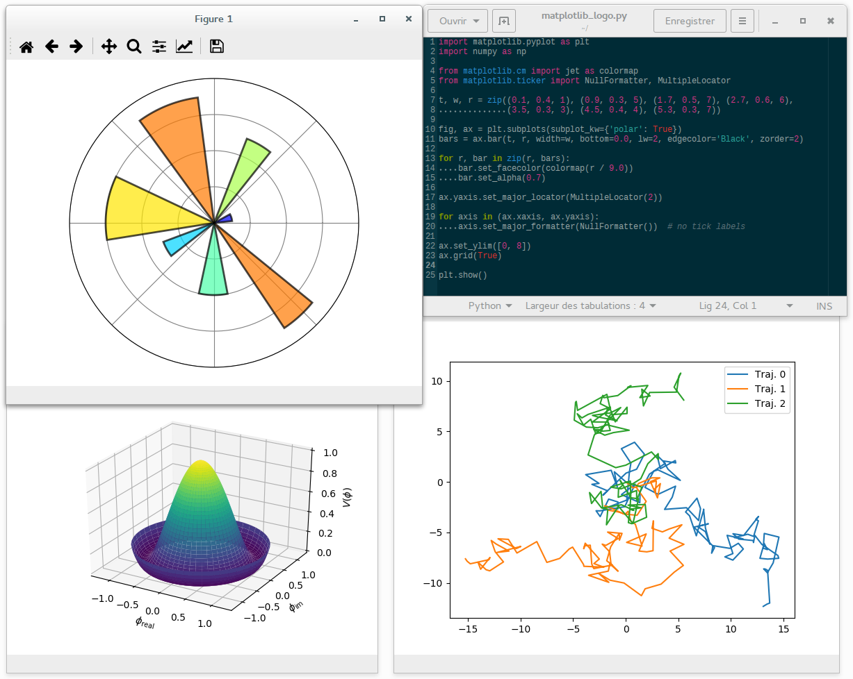 A screenshot showing matplotlib plots of a polar bar graph resembling the matplotlib logo (upper left), a 3D surface graph with the new default 'viridis' colormap (lower left), a graph of 2D random walk trajectories (lower right), and the python source code (of the logo part) opened in a text editor (upper right).